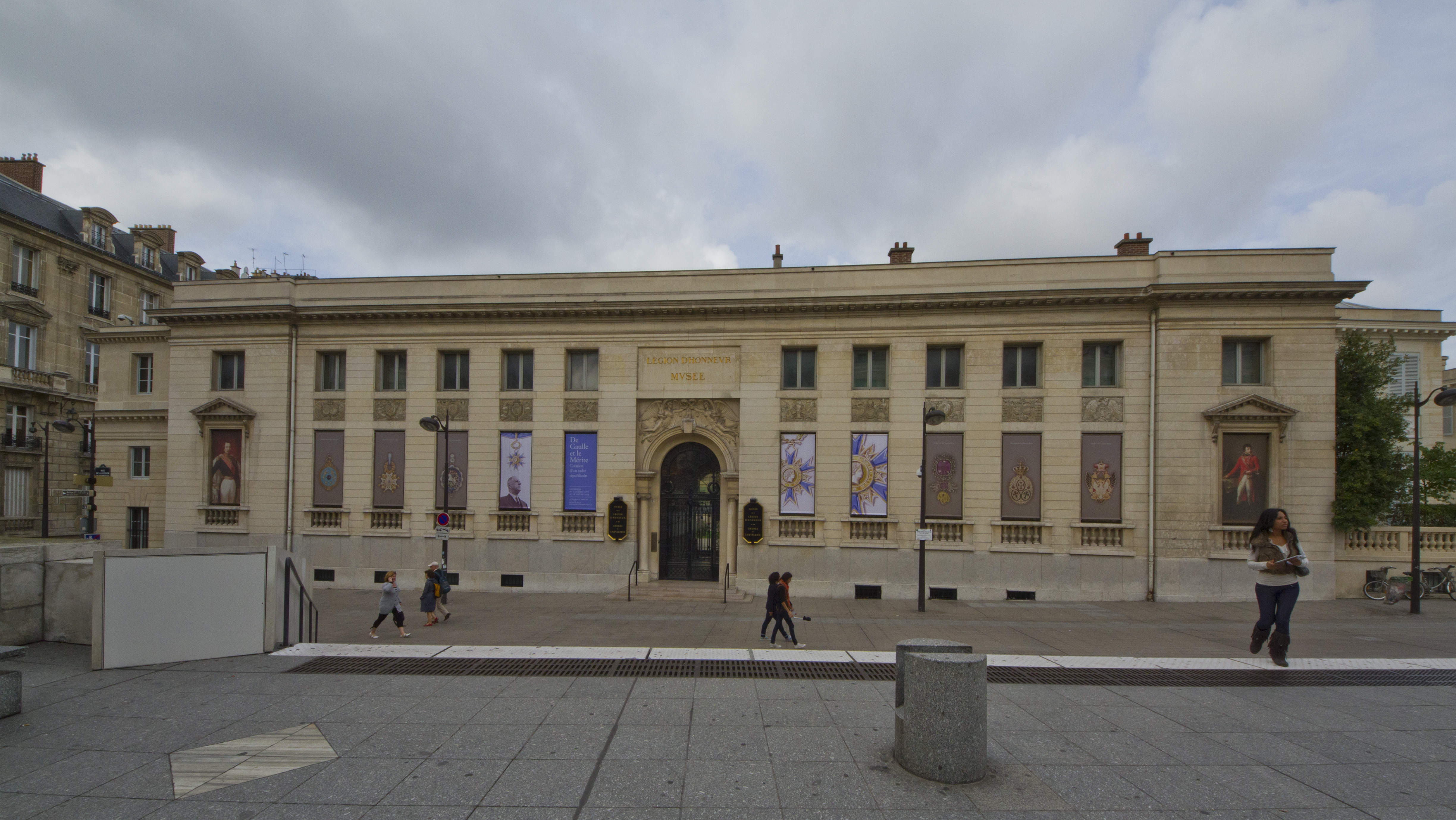 National Museum of the Legion of Honor & Orders of Chivalry, Saint-Thomas d'Aquin, Paris, France